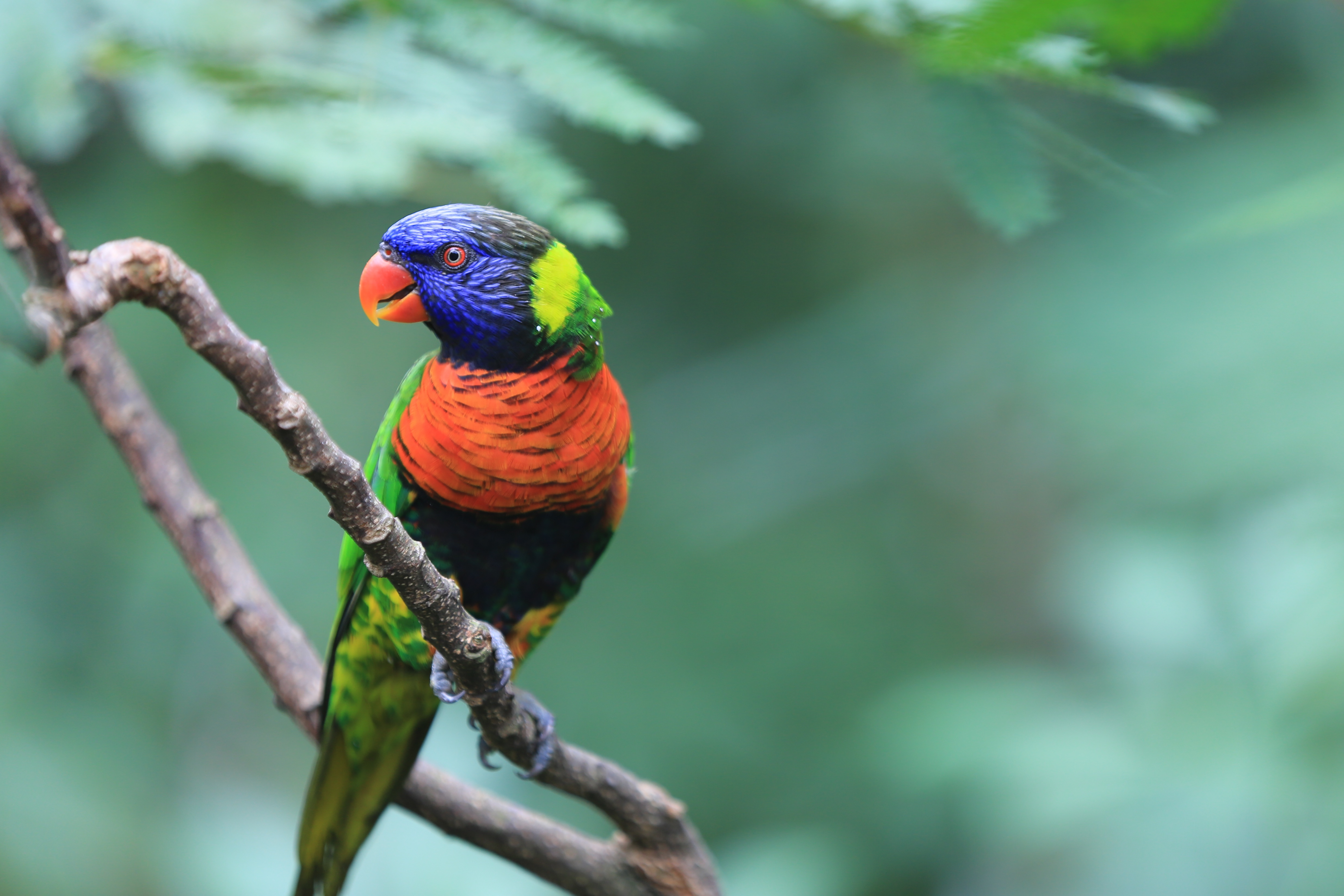 A Rainbow Lorikeet at Jurong Bird Park, Singapore.